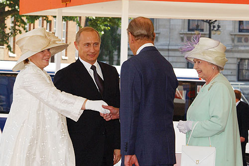 LONDON. Vladimir and Lyudmila Putin were welcomed at Horse Guards Parade by HM Queen Elizabeth II and Prince Phillip, the Duke of Edinburgh.